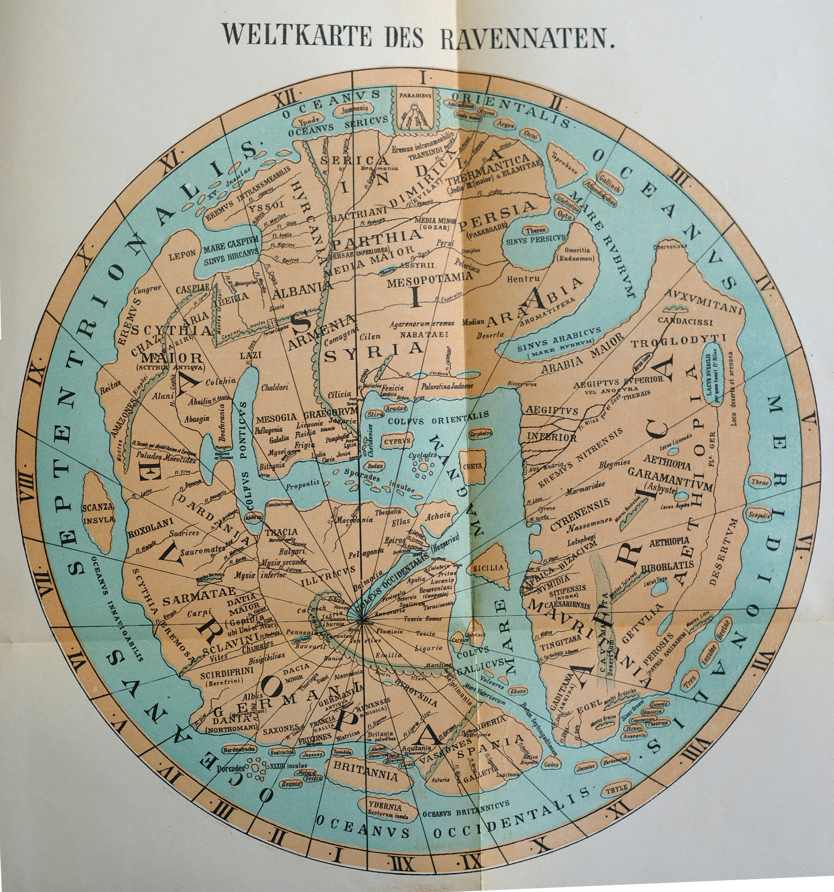 Reconstruction of a mappa mundi from the notes of an anonymous geographer from Ravenna (Italy), c. 650 AD, also known as the "Ravennate" mappa mundi. The reconstruction was printed in Konrad Miller (1898) 'Mappaemundi: Die ältesten Weltkarten, Stuttgart: Roth'sche. Volume VI, table 1. The map is unusally gridded by a rare 24-wind compass (or, more precisely, a classical 12-wind compass strangely partitioned into "day" and "night" segments, yielding 24 rays.)